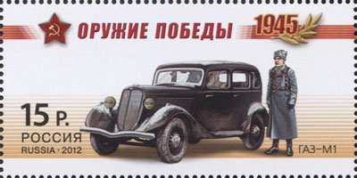 Weapon of the Victory. Automotive vehicles 4